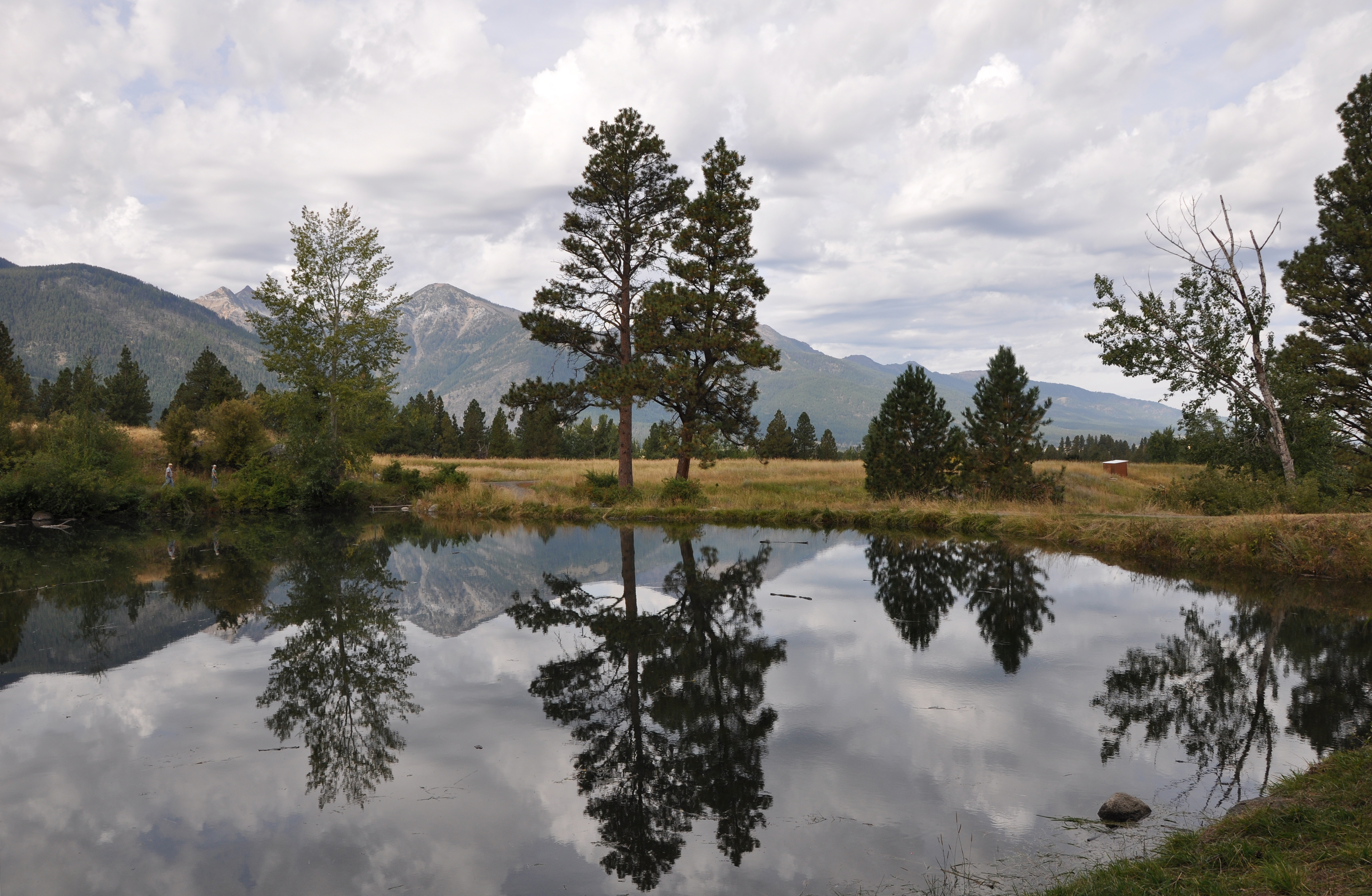 Knight's Pond at Iwetemlaykin State Heritage Site near Joseph, Oregon, in the United States. Wallowa Mountains in the background.